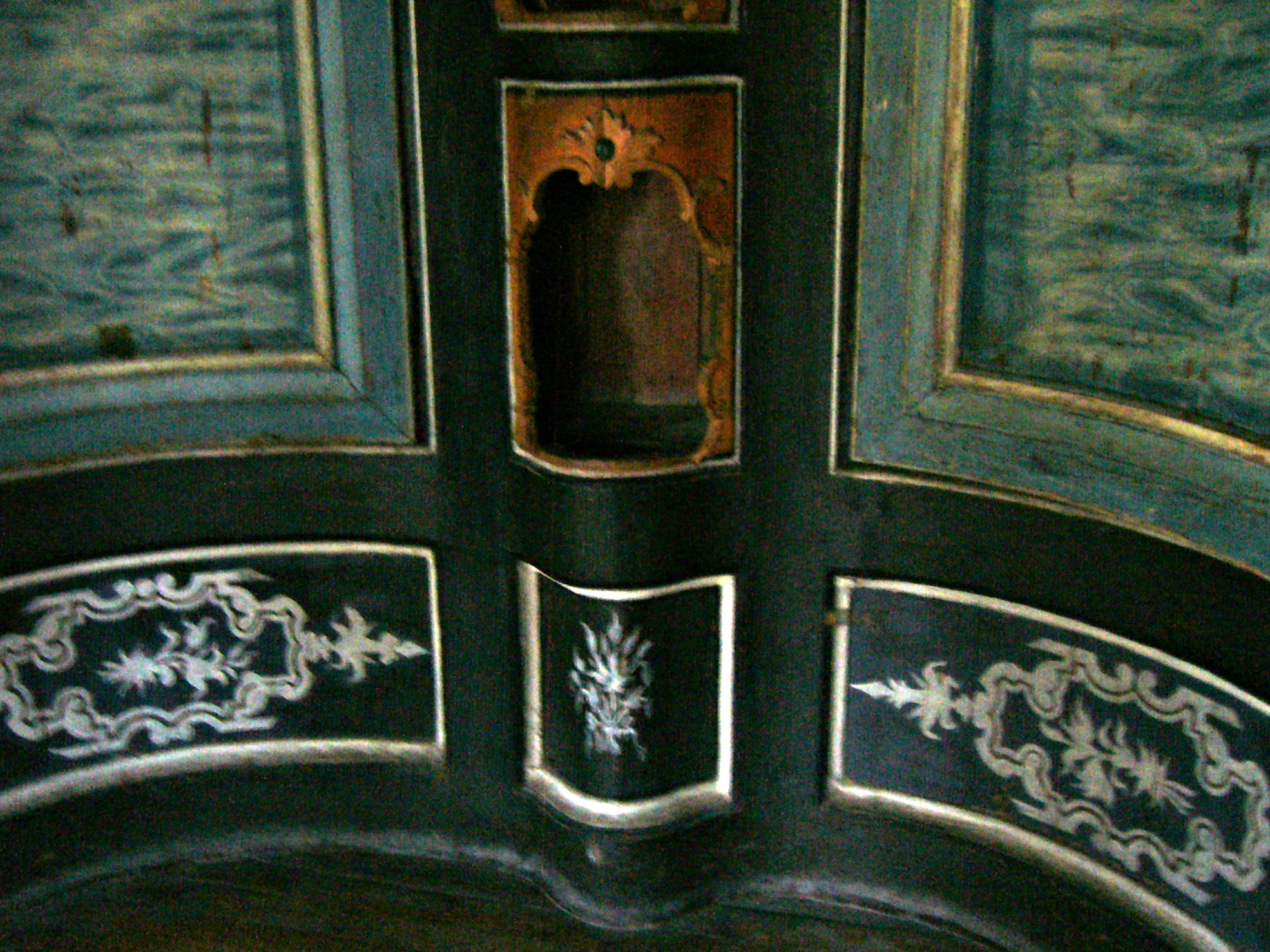 Niche in the Hadzhigeorgakis Kornesios'house (now Ethnographic Museum) in Nicosia, Cyprus.